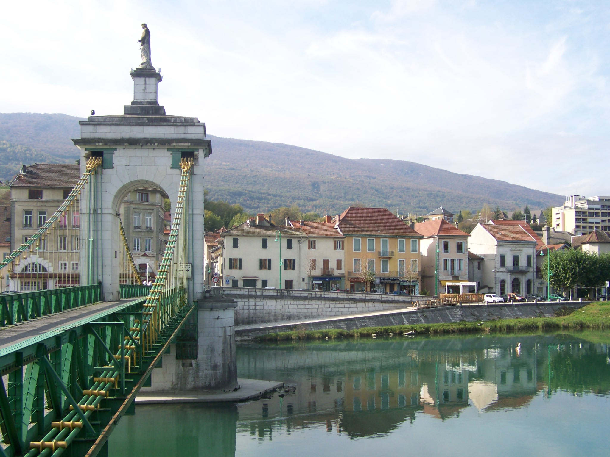 View of the part Ain of Seyssel, little French commune, seen from the part Haute-Savoie of the commune. Rhône river between the two Seyssel communes.